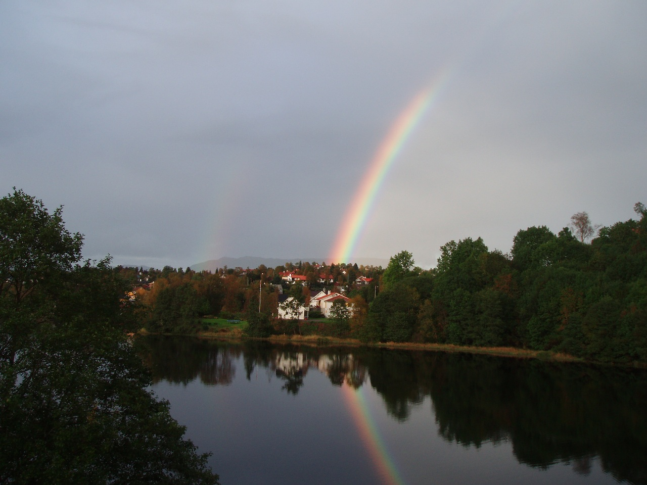 Rainbow in Bergen, Norway. The picture is taken from Fana towards the mountain Ulriken.